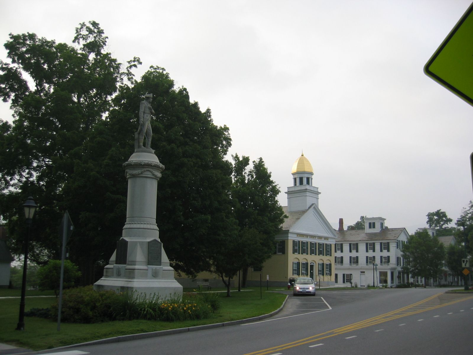 Manchester village, Vermont, U.S.